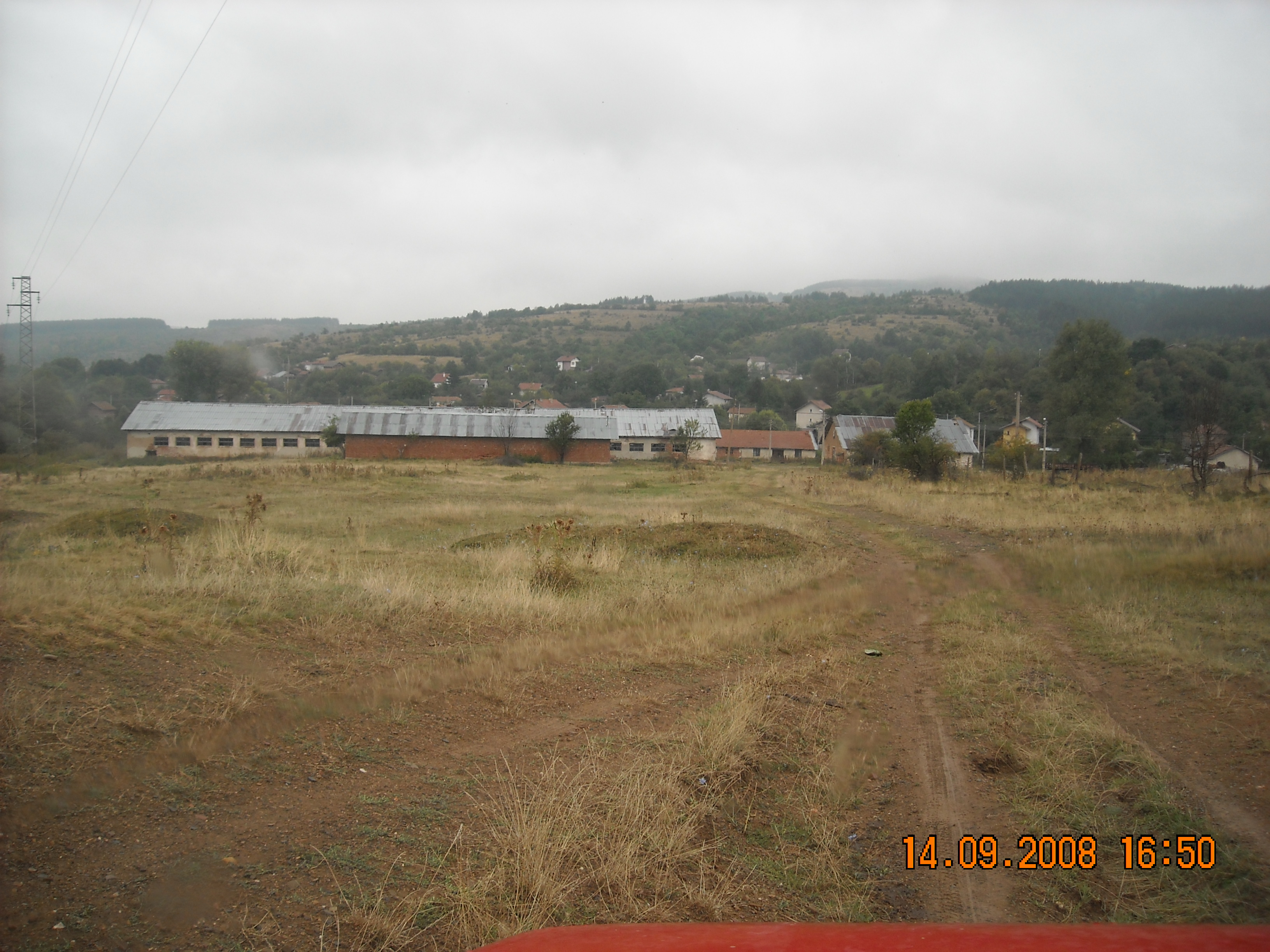 The agricultural cooperation of village Gigintsi